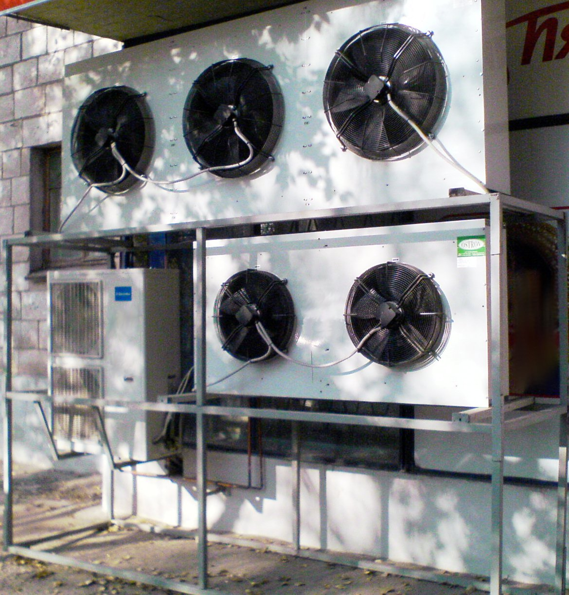 Сlimatic and refrigeration equipment